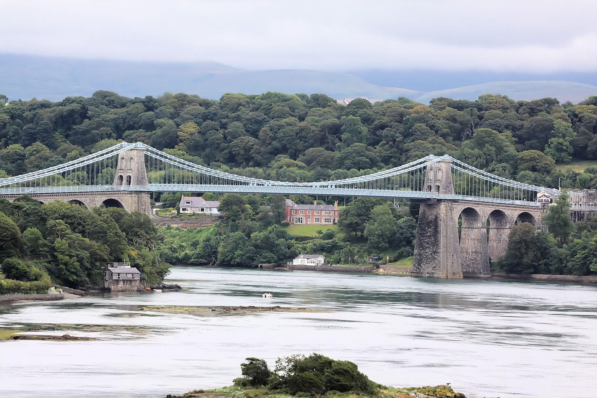 Menai Bridge - Anglesey August 2009